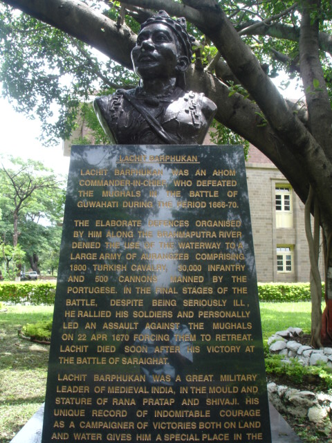 Lachit memorial at National Defense Academy India